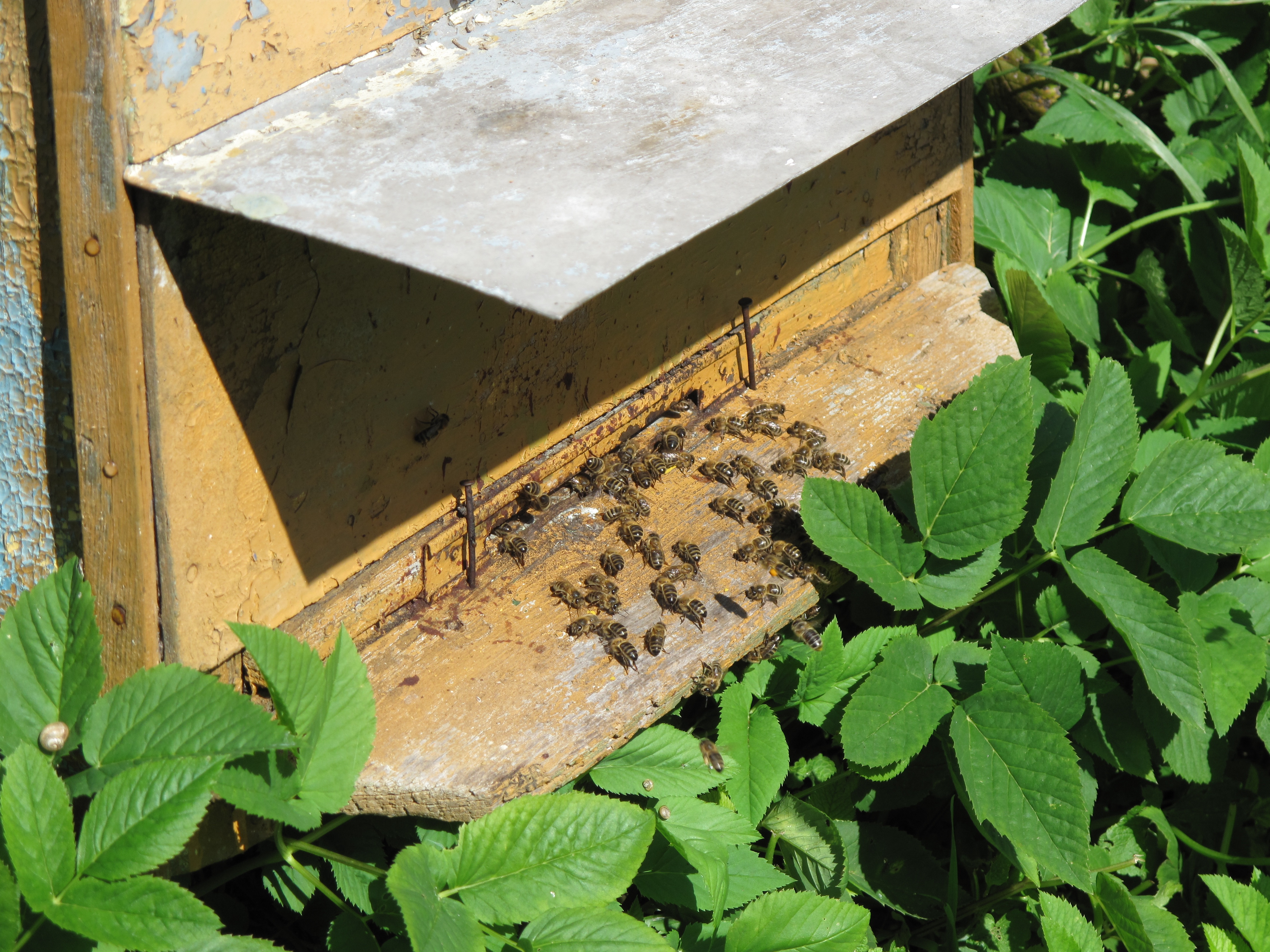 Bee nest in Krolewo close to Malbork in the north of Poland.